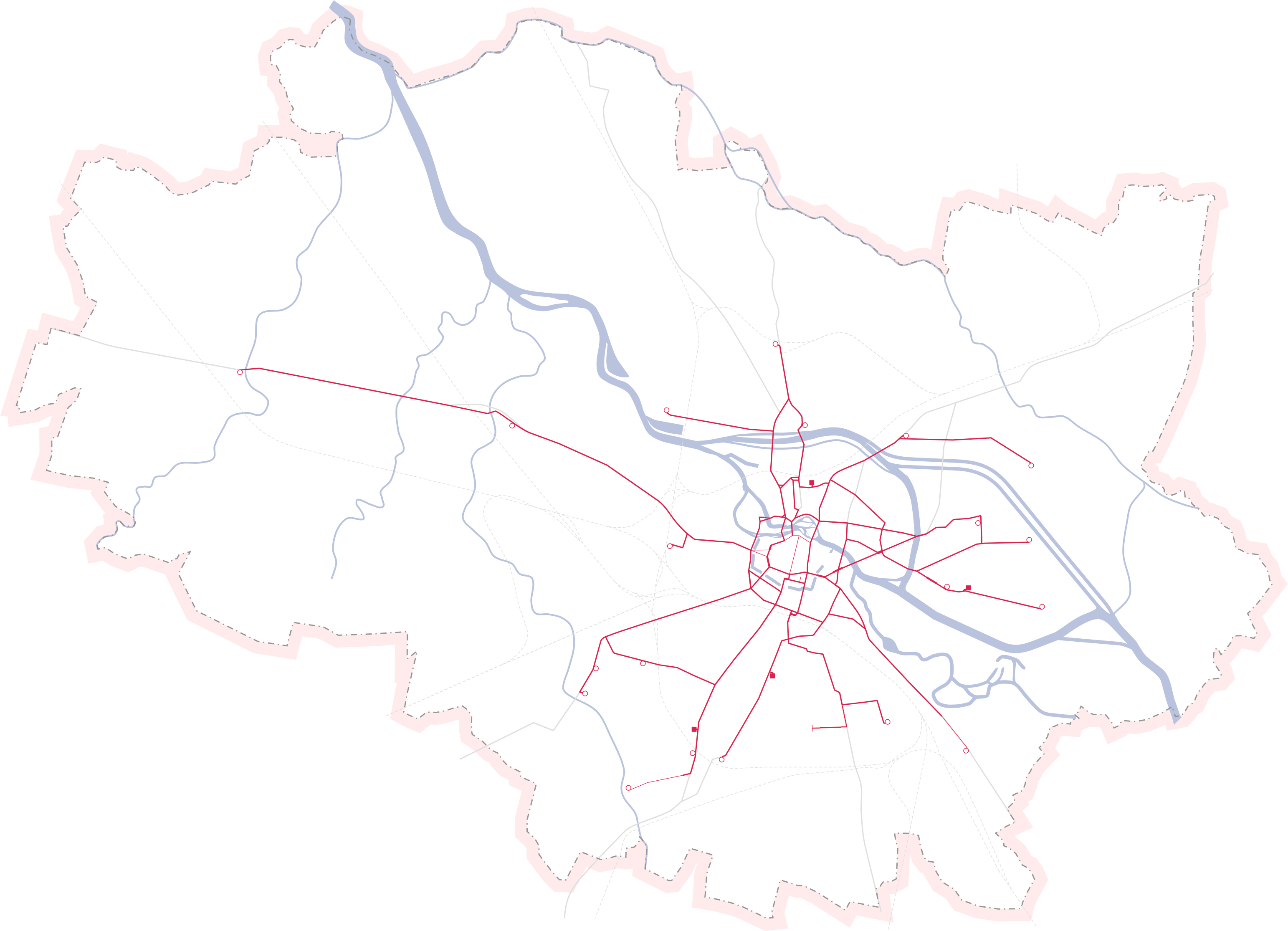 Streetcar network in Wrocław, 2009